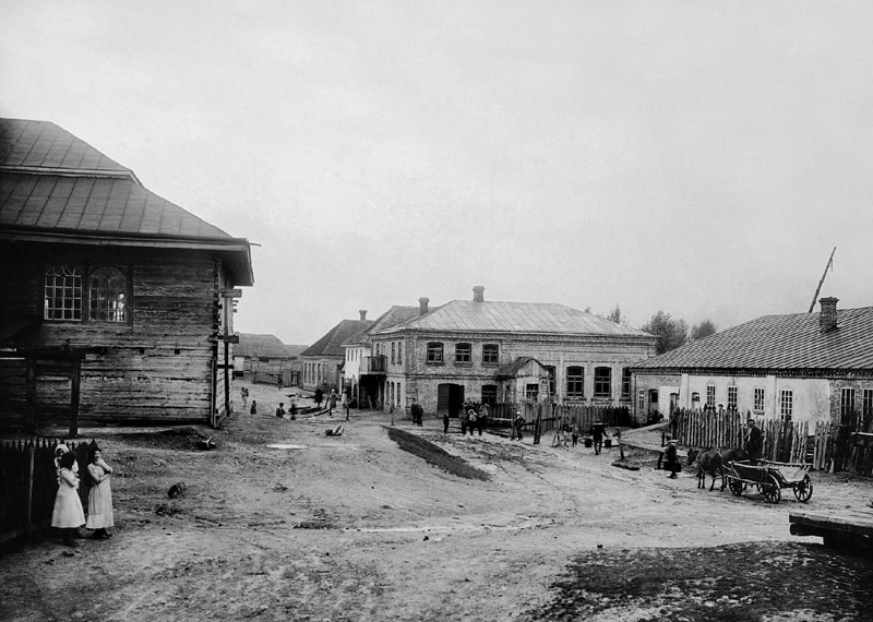 Street in Olyka (1912-1914) with the wooden synagogue on the left